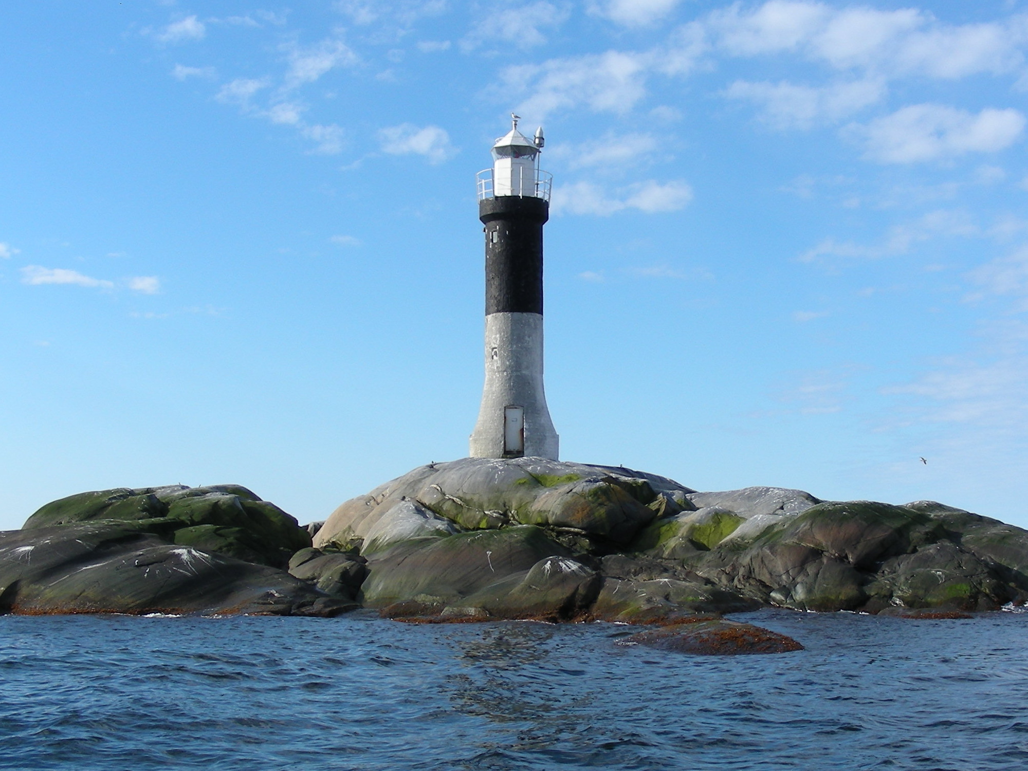 The Ramskär lighthouse.